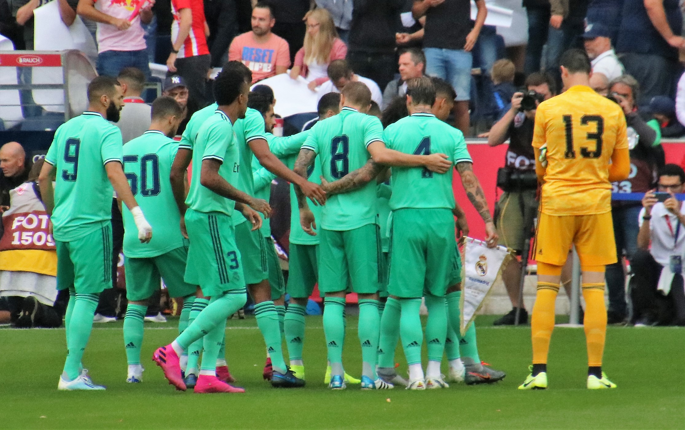 preseason match FC Salzburg